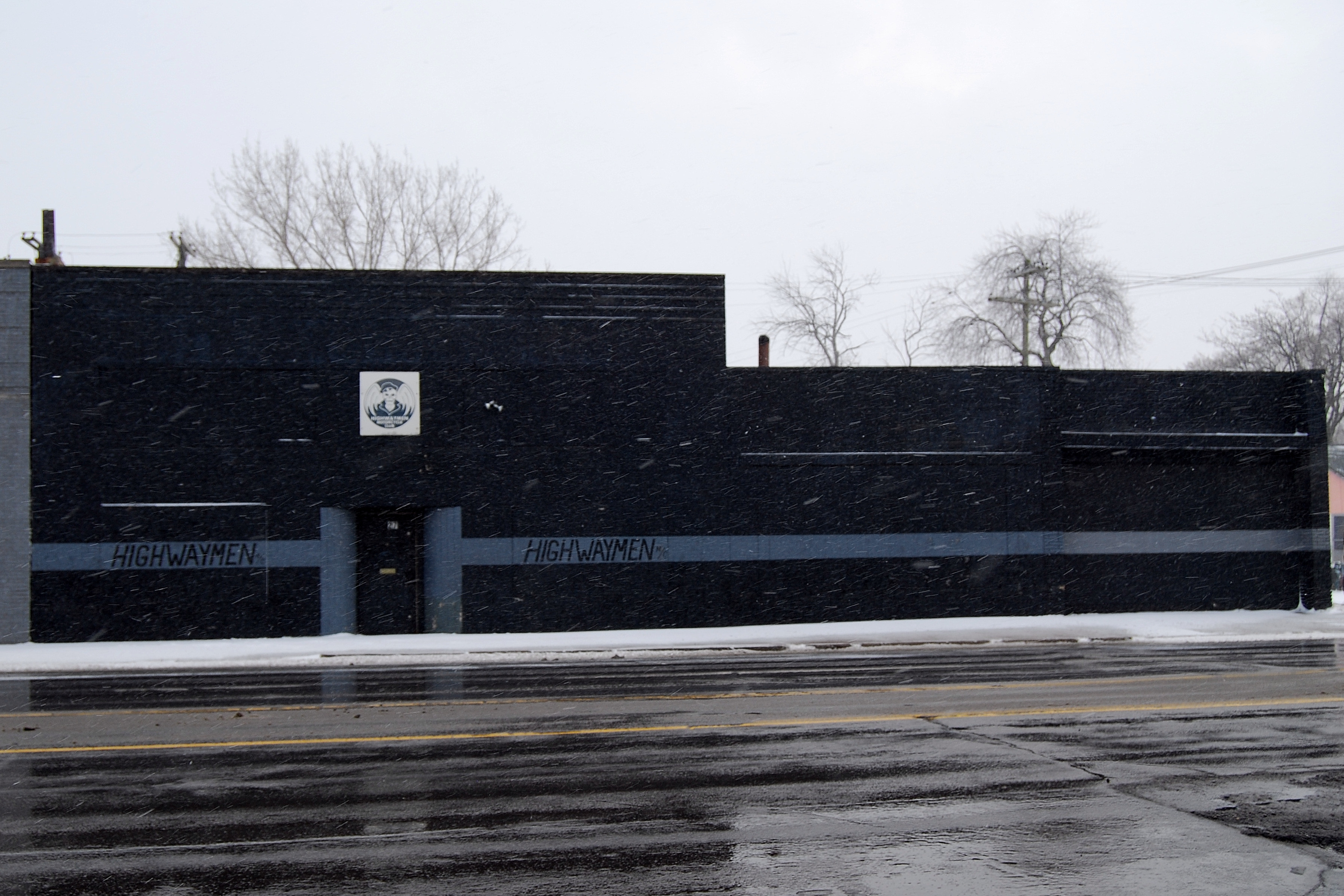 Highwaymen Motorcycle Club, 4527 Michigan Ave., Detroit, MI